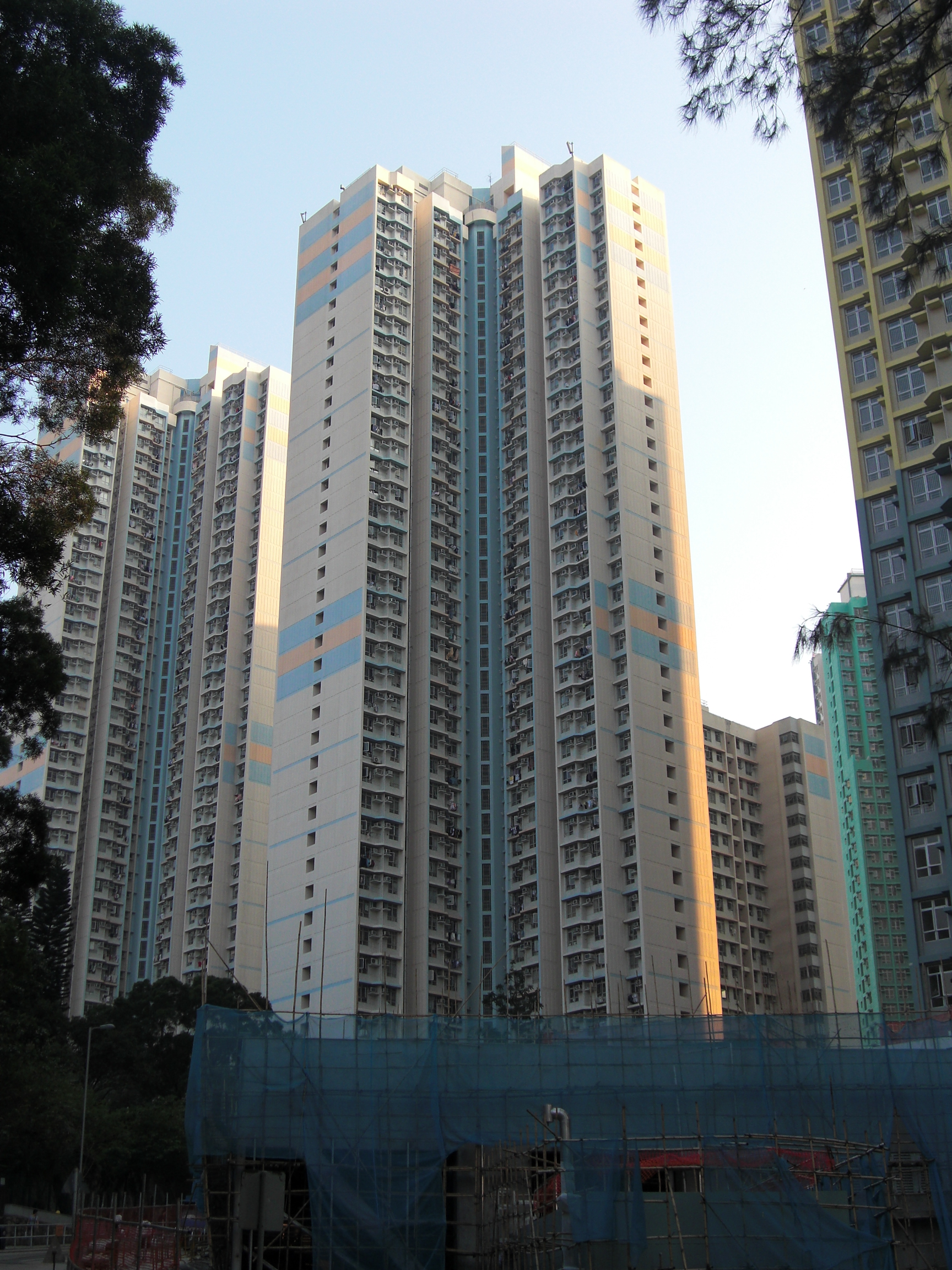 Sheung Yat House, Upper Ngau Tau Kok Estate is seen.